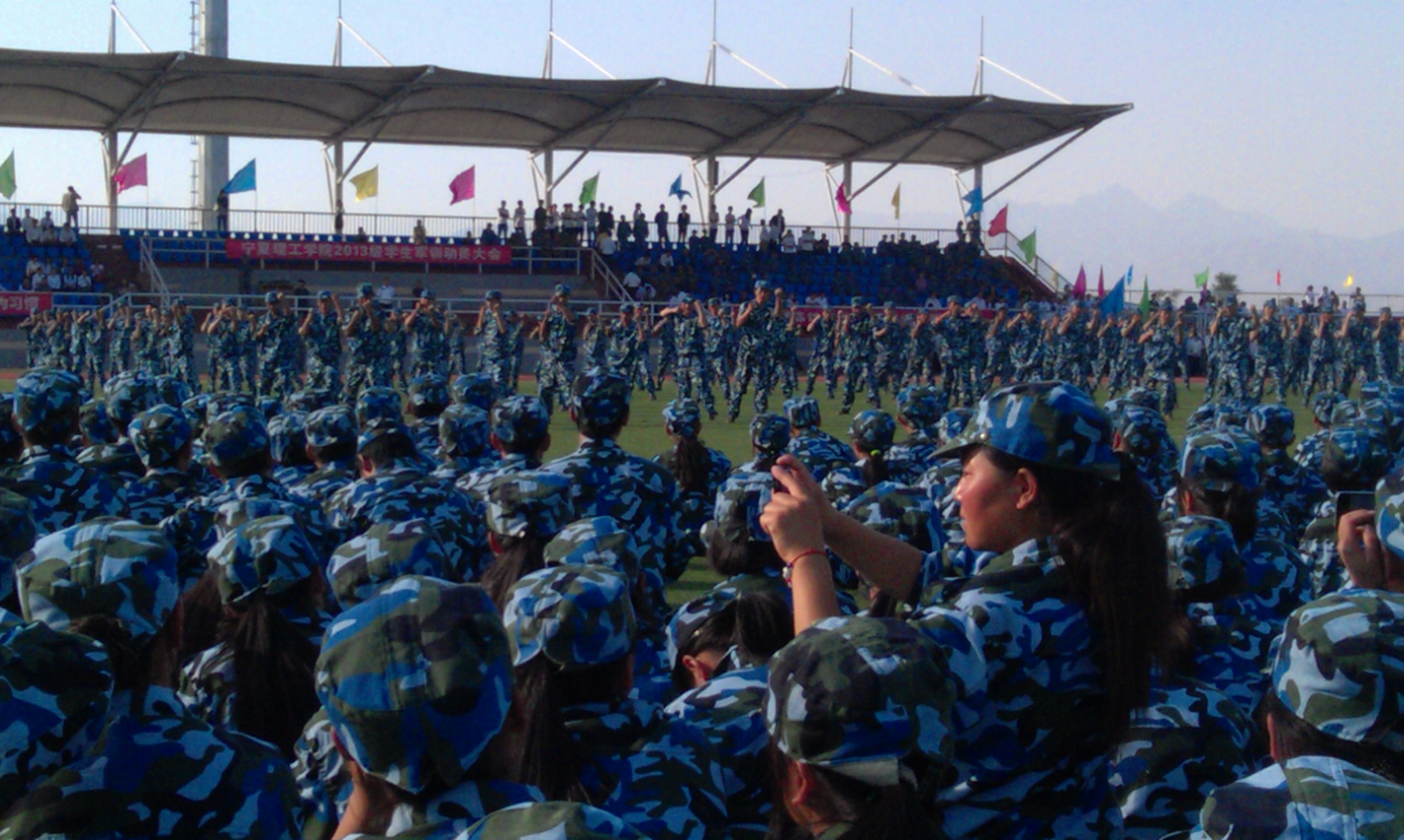 A group of college freshmen were performing Chinese boxing on the playground of a Chinese college during the military training.